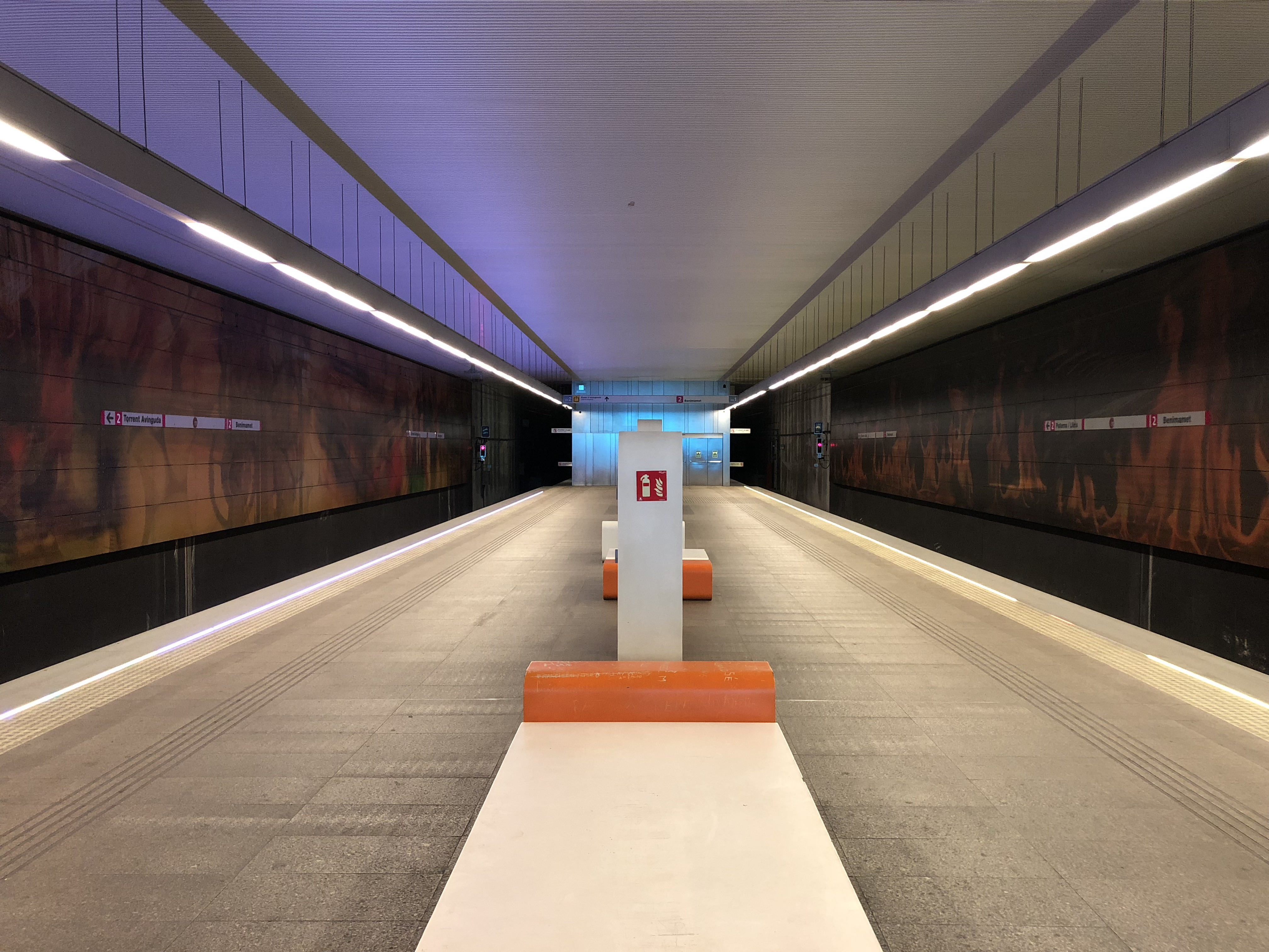 Platform of the Benimàmet station of Metrovalencia.